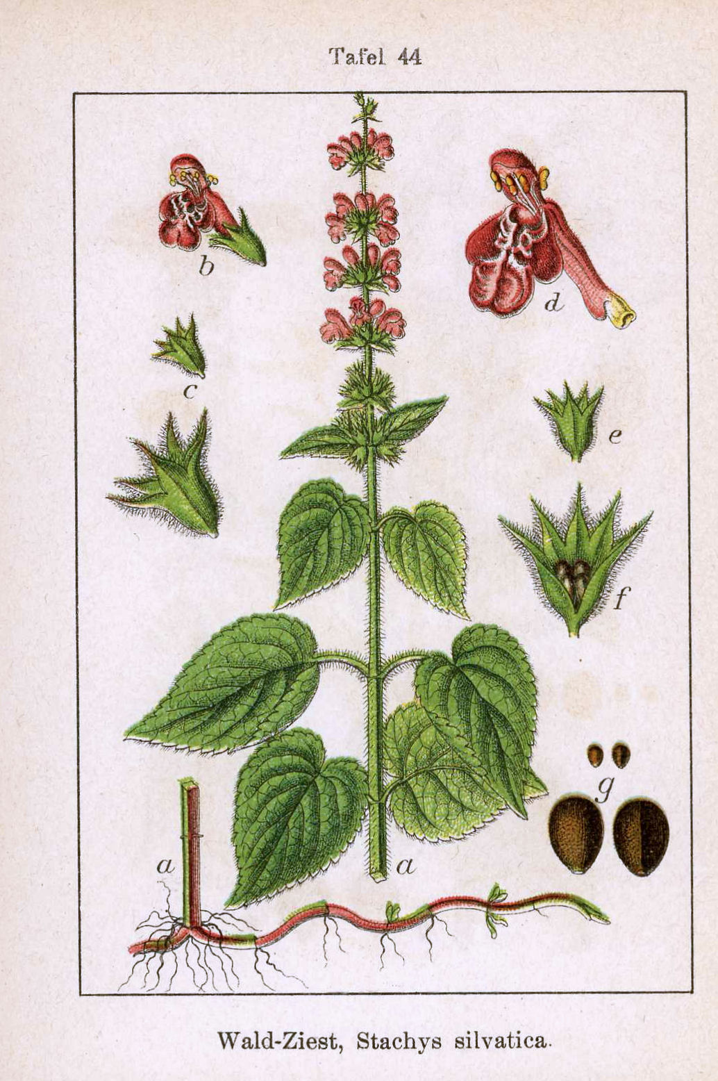 Stachys sylvatica L. Original Caption Wald-Ziest, Stachys silvatica